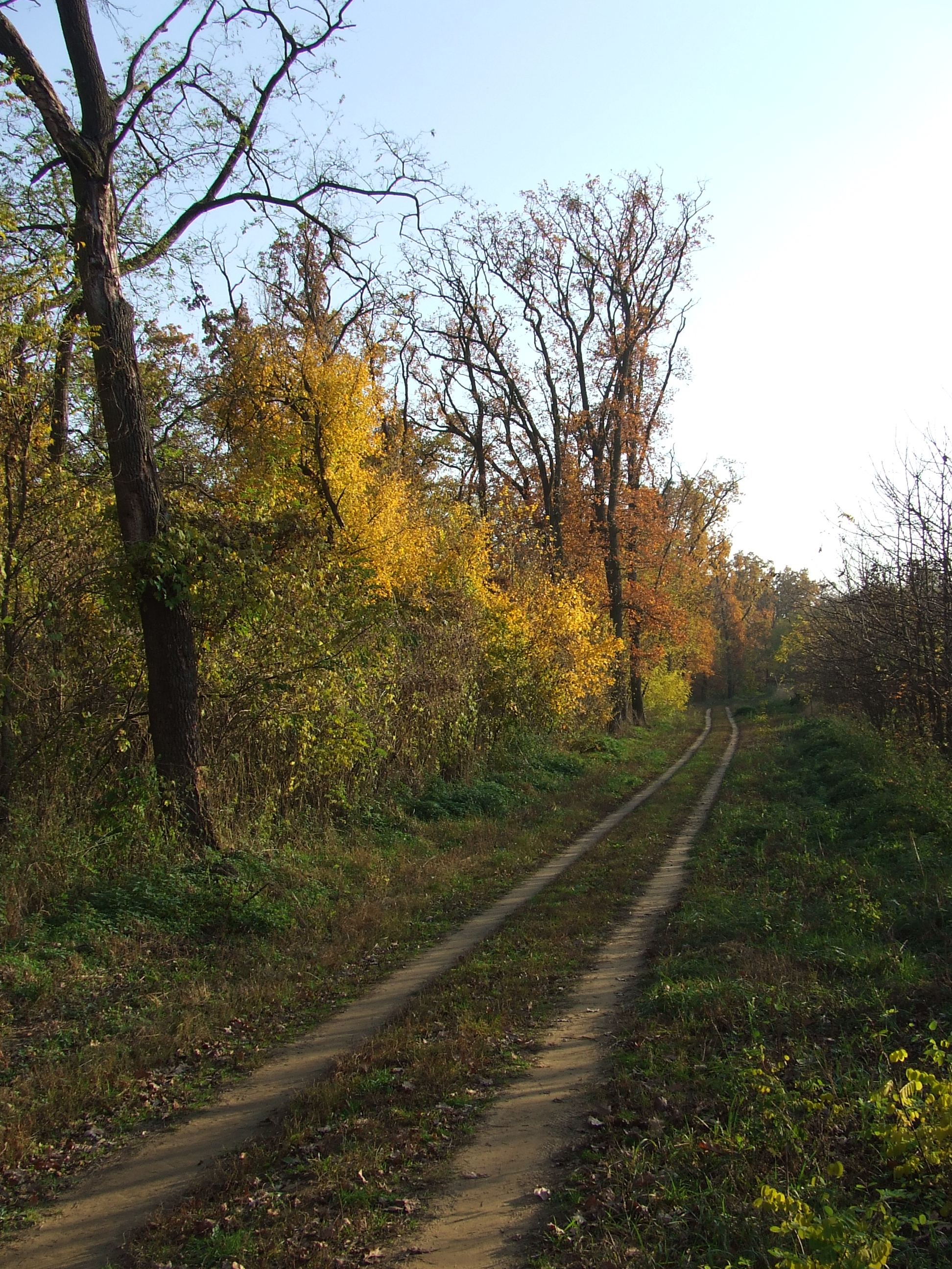 Bicycle road in the forest of Sóstógyógyfürdő, near Nyíregyháza, Hungary.